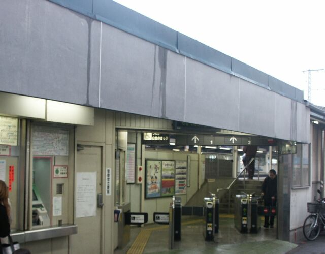 South exit of Jujo Station